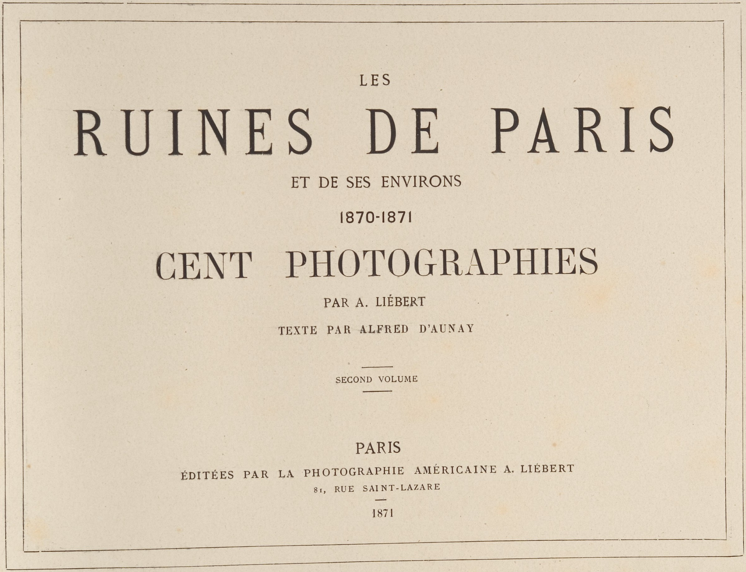 Alfred d'Aunay's introduction to the second volume of Liébert's compendium of photographs of the ruins of Paris and its environs begins with the following description of Neuilly, the suburb of Paris that for three weeks lay between the Communards and the nationalists and absorbed the fire of each: If the tourist would like to get an idea of a complete disaster, of a village in which not a house was spared, in which not a section of wall dodged the terrible baptism of bombardment and grapeshot, it is to Neuilly that he must make his pilgrimage. At Neuilly, all along that immense avenue that Sunday "promeneurs" know so well, there is not a single house that did not at least have its windows broken, its roof caved in, its walls breached by large holes.